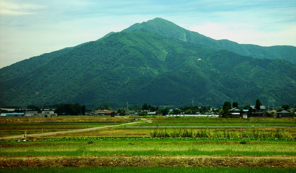 Mount Arashima from Ōno city. Looking southeast.]